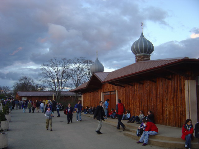 Church of Reconciliation at Taizé